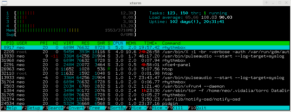 Htop showing a huge computing load.